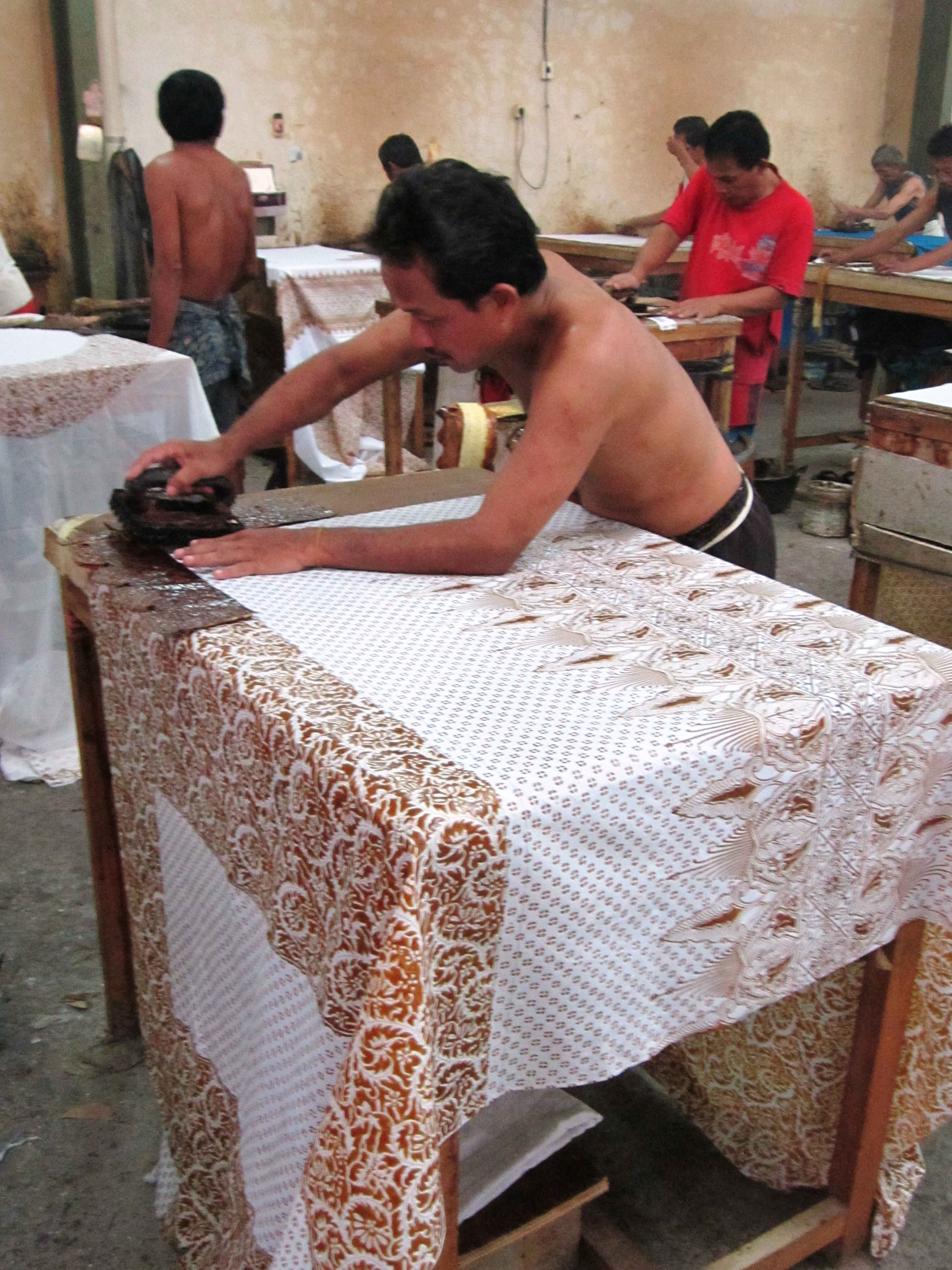 A Javanese man is making Batik in Yogyakarta, Indonesia.